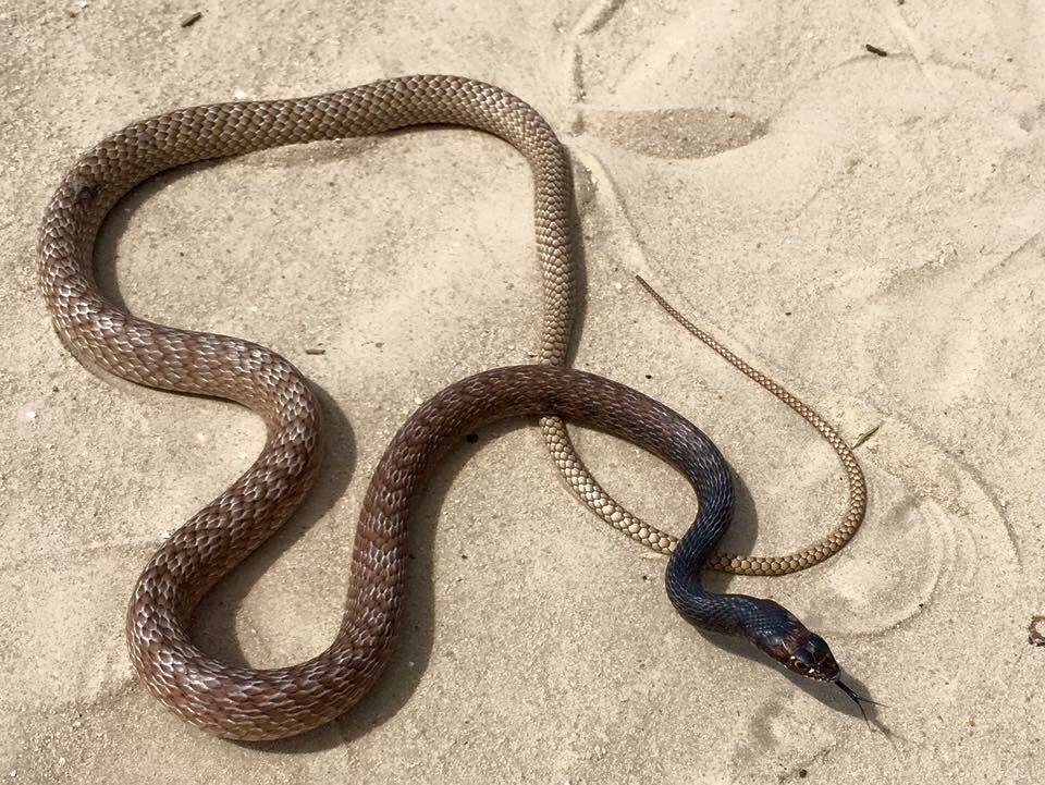 Ccoachwhip, Masticophis flagellum Florida